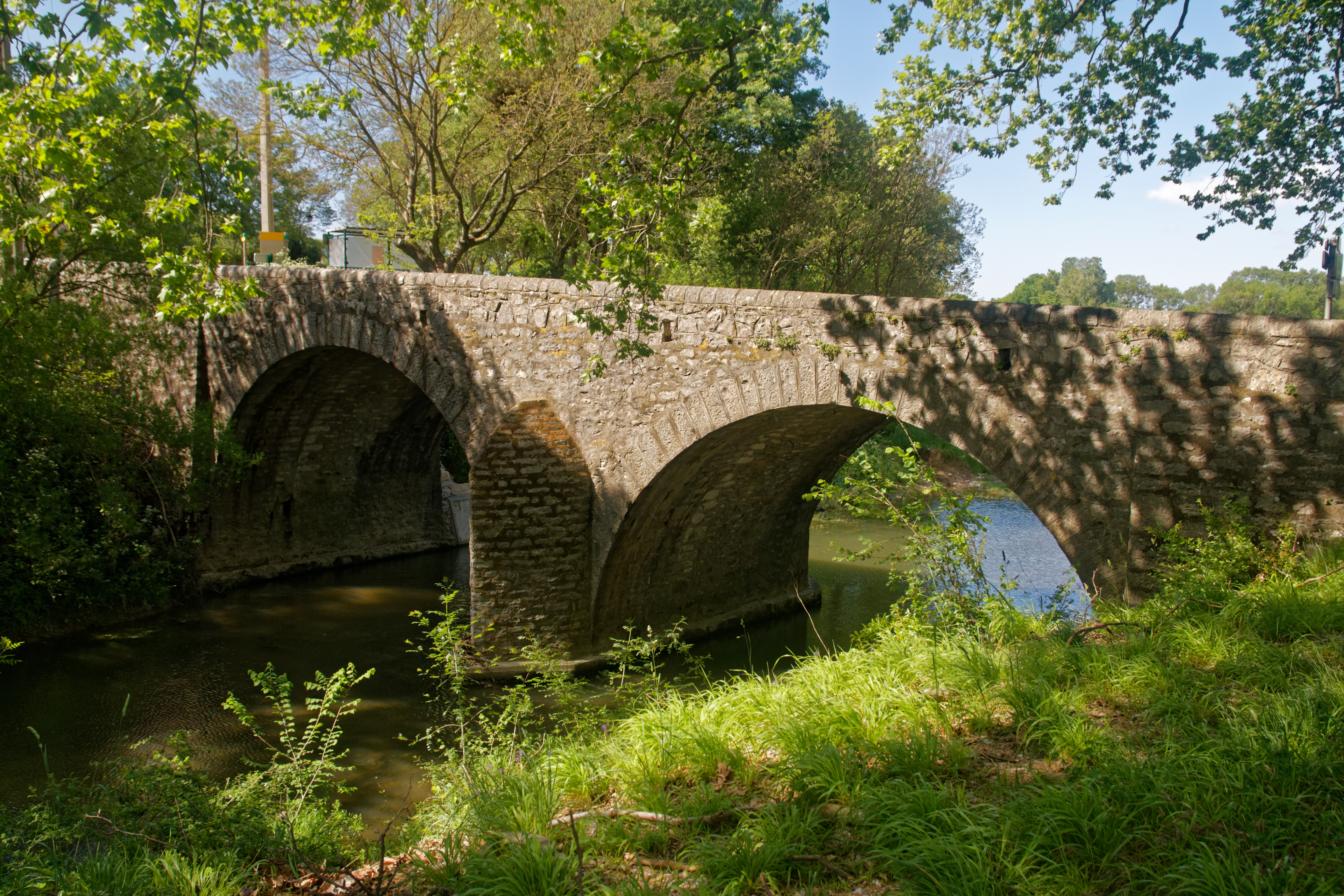 Bridge over the Bay.